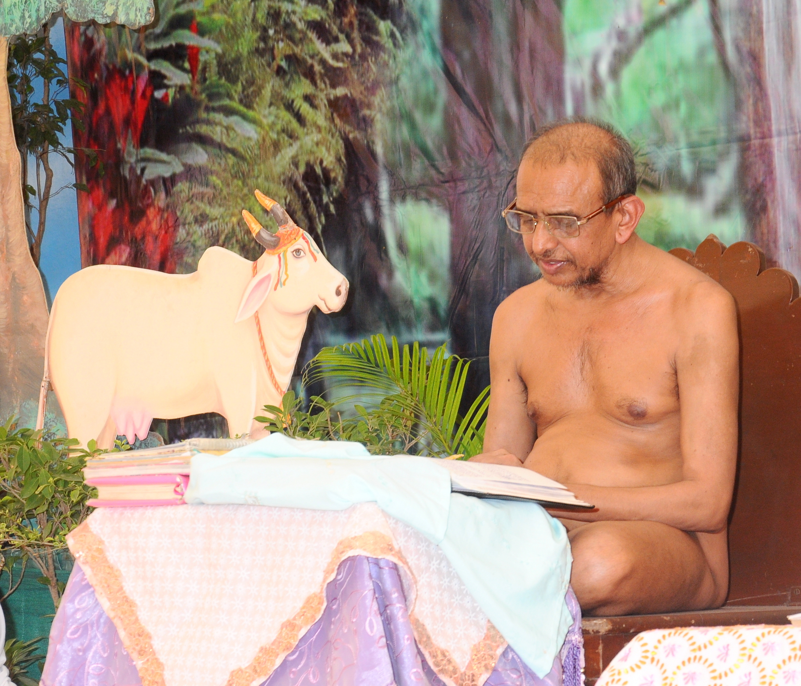 Photo of Acharya Gyansagar ji Maharaja, a prominent Digamabar Jain saint.